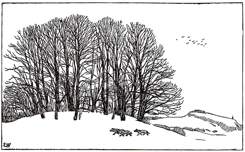 "Farmannshaugen". The Norwegian artist Erik Werenskiold's drawing of Farmannshaugen, a tumulus outside Tønsberg, Norway. Erik Werenskiold: Illustration for Harald Hårfagres saga, Heimskringla 1899-edition. «Farmannshaugen.»